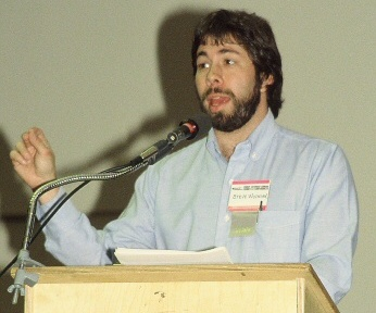 Apple Convention, Boston, Spring 1983 Permission granted to copy, publish or post but please credit "photo by Alan Light" if you can